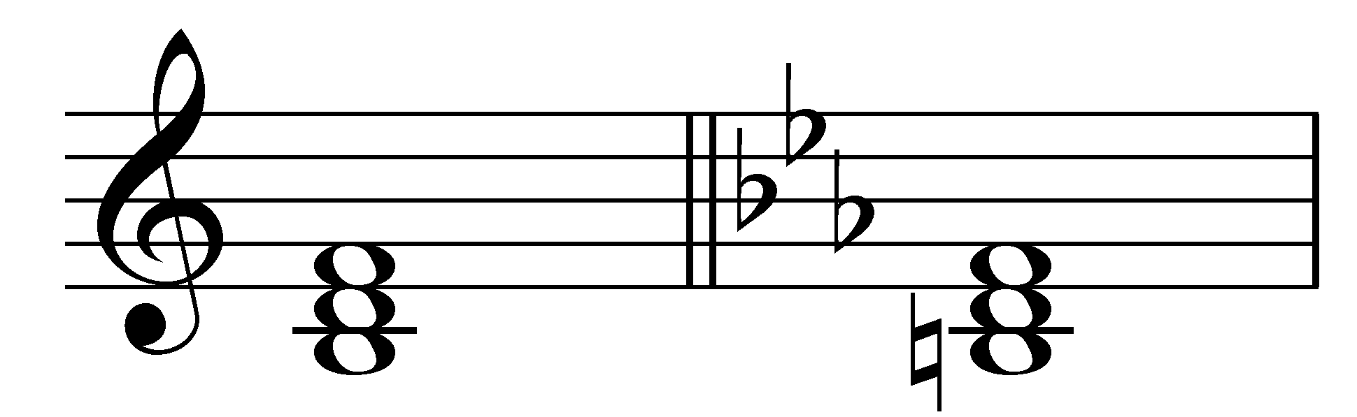 Diminished triad on B.